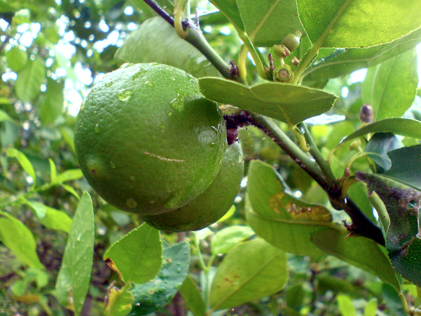 Lime (Citrus ×aurantiifolia) - Taken at 4:07 PM on July 22, 2007 - cameraphone upload by ShoZu